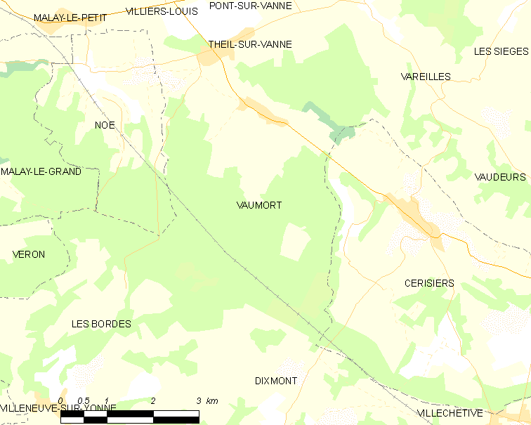 Map of French municipality Vaumort